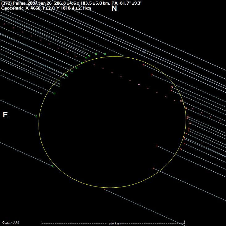 Occult plot of a 20 chord occultation of the star HIP 41975 by 372 Palma, which occurred 2007-01-26.